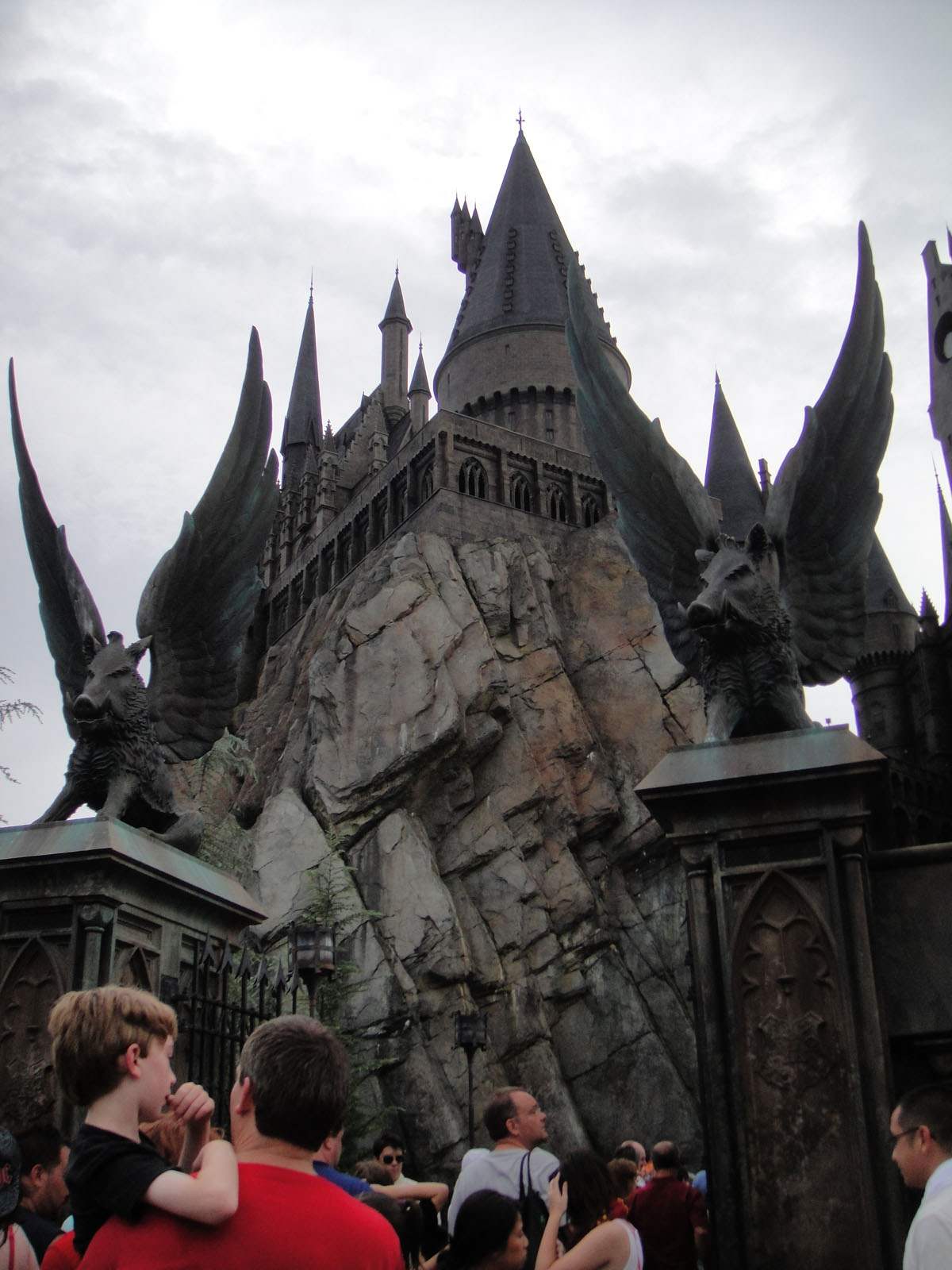 Wizarding World of Harry Potter - entrance to Hogwarts